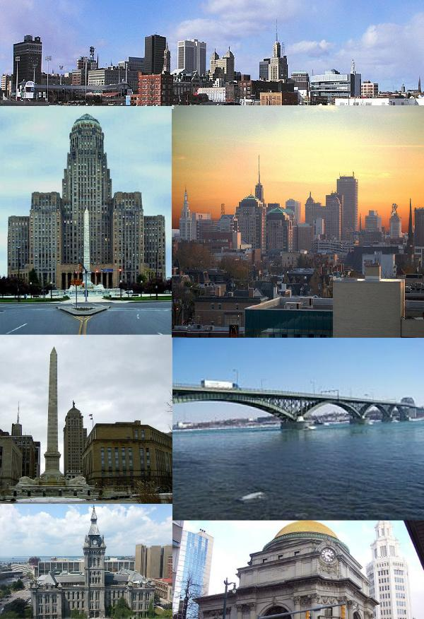 Montage of Buffalo NY from File:BuffaloSkyline.jpg, File:Buffalo savingsbank.JPG, File:Buffalo City Hall - 001.jpg, File:Buffalo, New York from I-190 North entering downtown.jpg, File:Erie County Hall 2012.jpg, File:Peace Bridge.jpg, File:Niagara Sq Buffalo NY.jpg